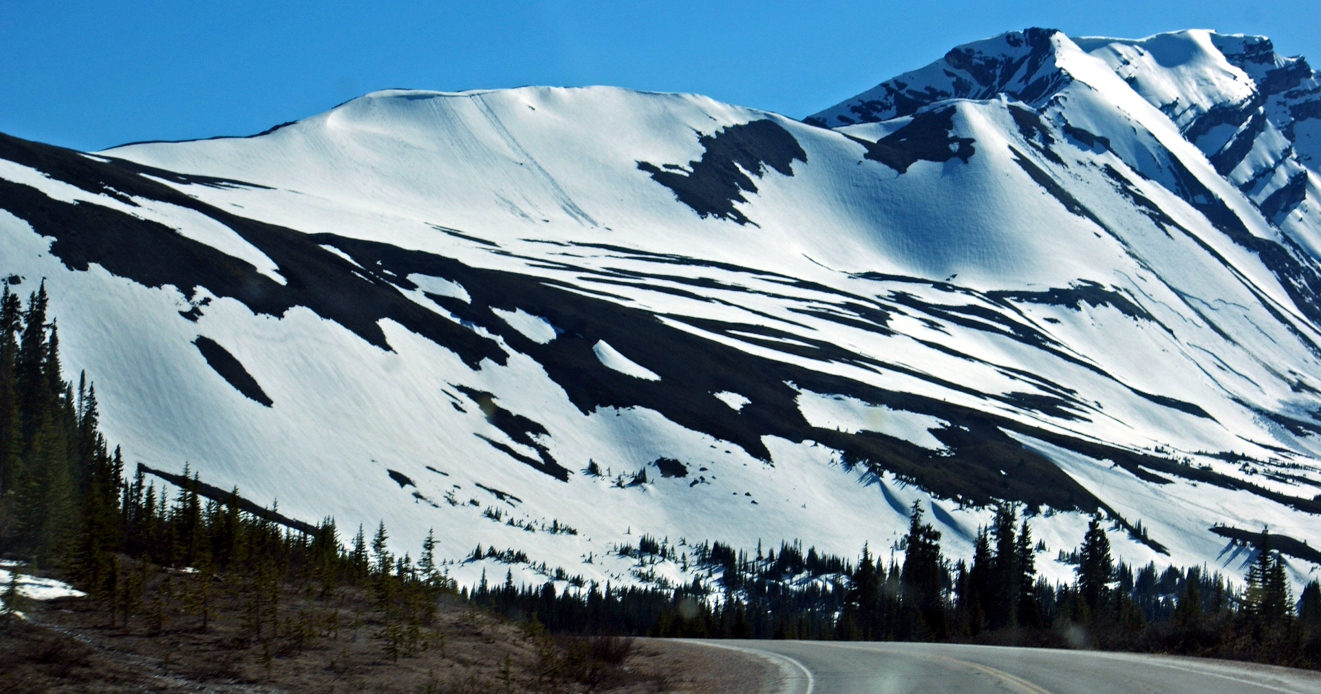 Parker Ridge seen from Icefields Parkway. Banff Park, Canada